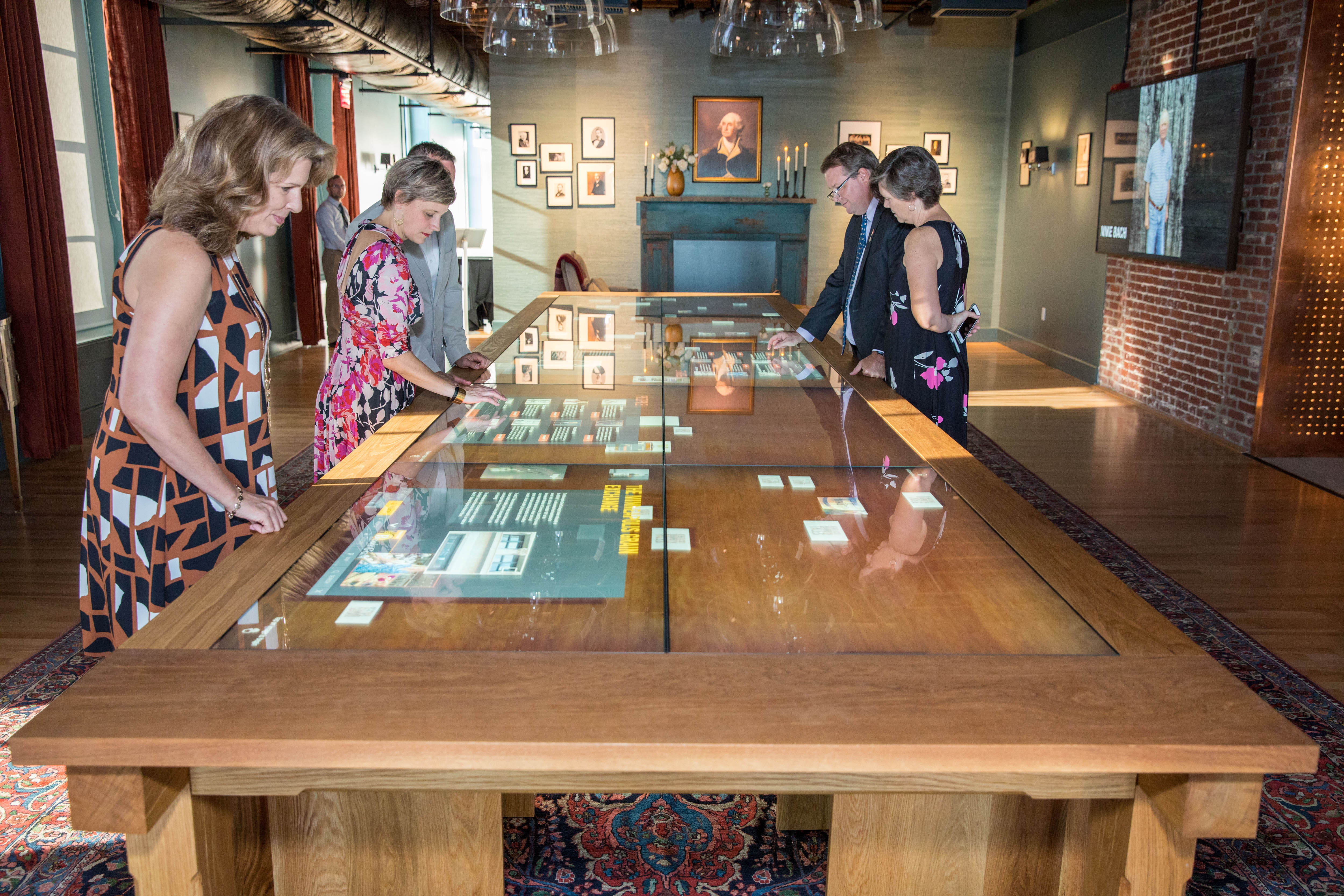 A table in the "Gracious" room contains a vast digital library of bourbon-related content.